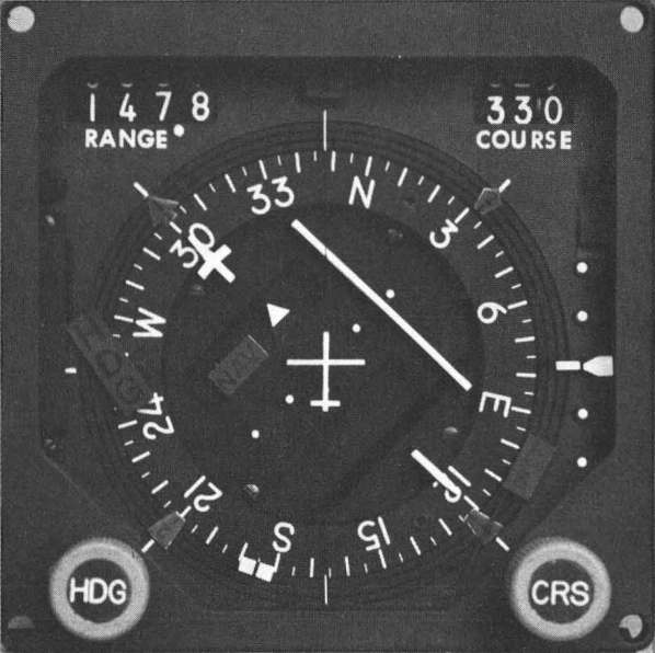 AH-1S Horizontal Situation Indicator.